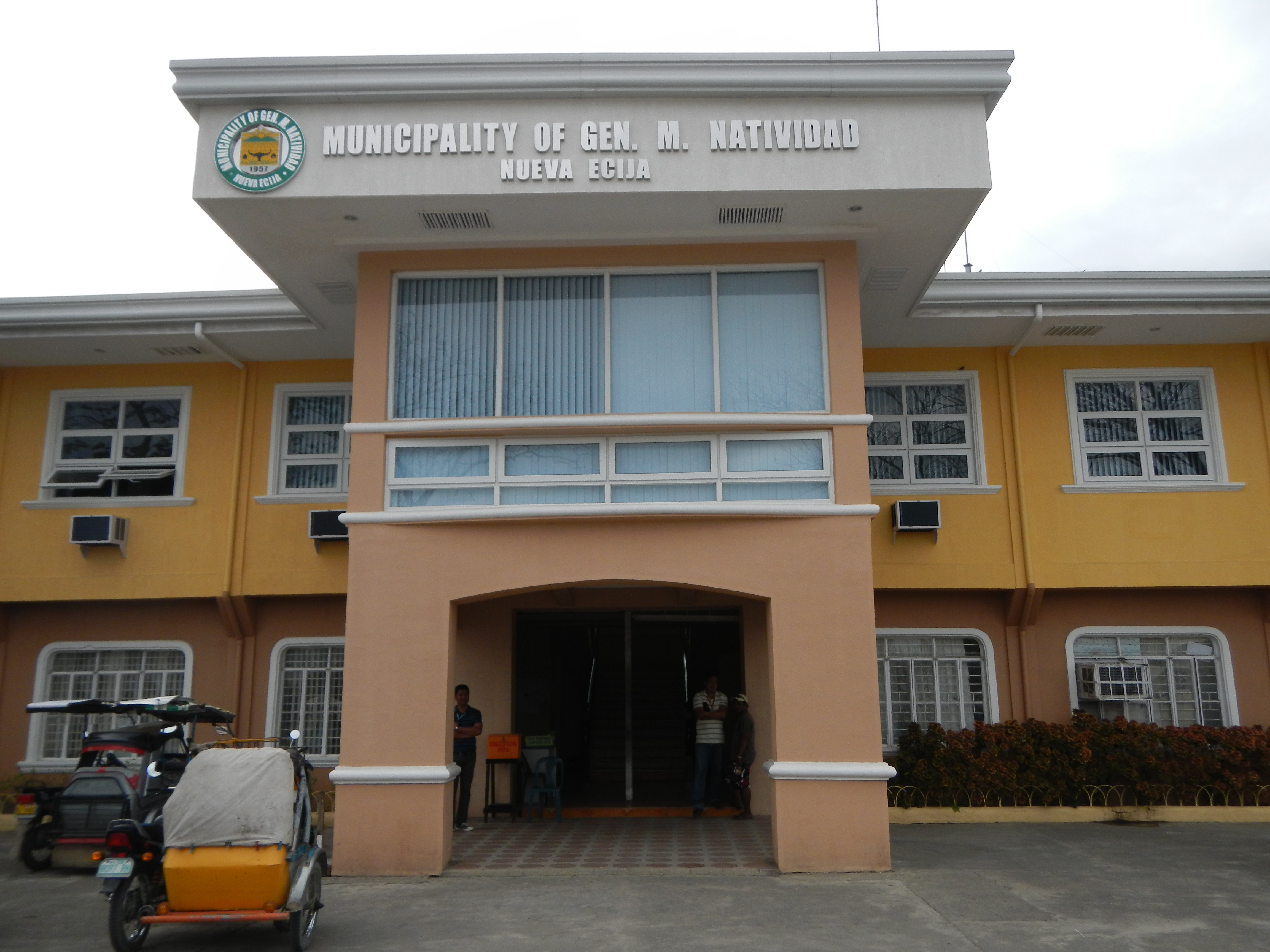 Town Hall and Municipal Shrine of General Mamerto Natividad, Nueva Ecija Barangays Poblacion 15.6095, 121.0568 General Mamerto Natividad, Nueva Ecija